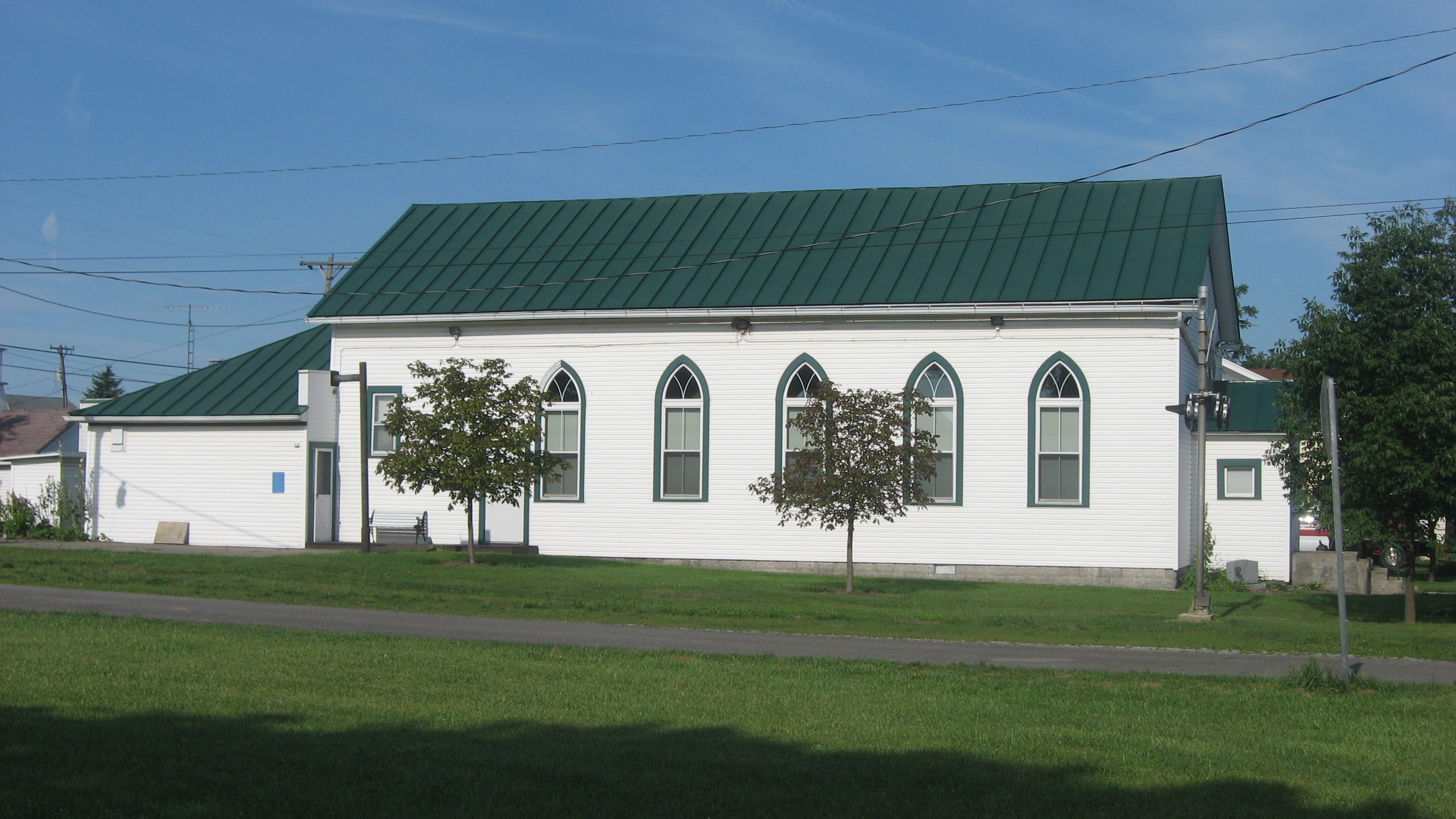 Eastern side of the Uniopolis Town Hall, located along Ohio Street (State Route 67) at its intersection with Mill Street in Uniopolis, Ohio, United States. Once a congregation of the Church of the United Brethren in Christ, it now serves as the location of the municipal offices and of the Uniopolis Historical Society Museum, and is listed on the National Register of Historic Places.